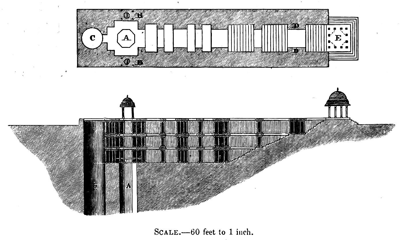 Plan of Dada Harir Stepwell Ahmedabad Gujarat India. A. Principal Well, octagonal. C. Well for Irrigation. B. Spire Staircases descending to the Water surface. D. Inscriptions on the Sides of the Gallery. E. Domed Porch mounted by Cupolas. Image taken from: Title: "Architecture at Ahmedabad, the Capital of Goozerat, photographed by Colonel Biggs, ... With an historical and descriptive sketch, by T. C. H., ... and architectural notes by J. Fergusson, etc" Author: HOPE, Theodore Cracraft - Sir, K.C.S.I Contributor: BIGGS, Thomas. Contributor: FERGUSSON, James - Architect Shelfmark: "British Library HMNTS 10057.f.17.", "British Library OC V 6665" Page: 85 Place of Publishing: London Date of Publishing: 1866 Issuance: monographic Identifier: 001730119 Explore: Find this item in the British Library catalogue, 'Explore'. Download the PDF for this book (volume: 0) Image found on book scan 85 (NB not necessarily a page number) Download the OCR-derived text for this volume: (plain text) or (json) Click here to see all the illustrations in this book and click here to browse other illustrations published in books in the same year. Order a higher quality version from here.